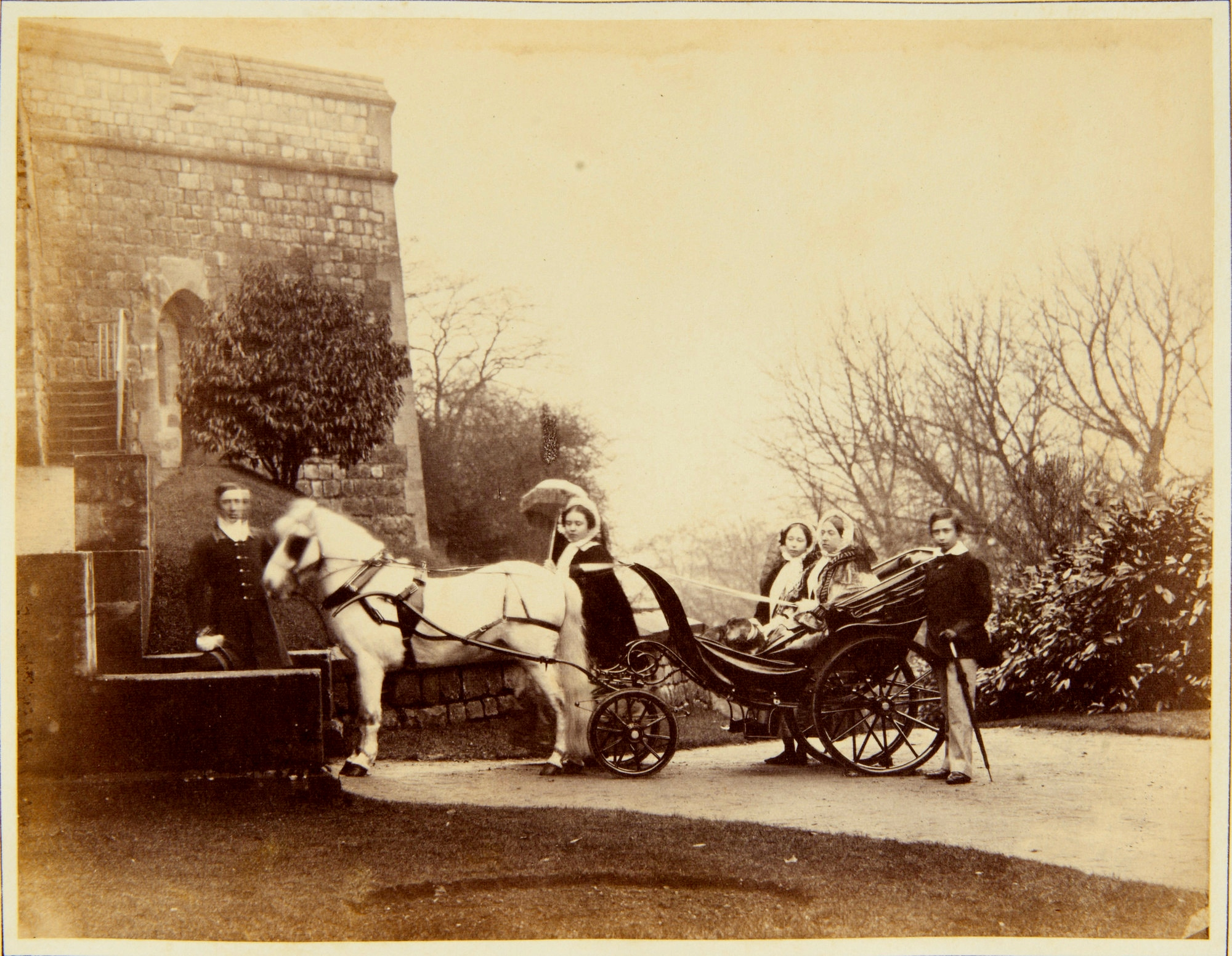 Her Majesty the Queen, The Prince of Wales, Princess Royal and Princess Alice 1857